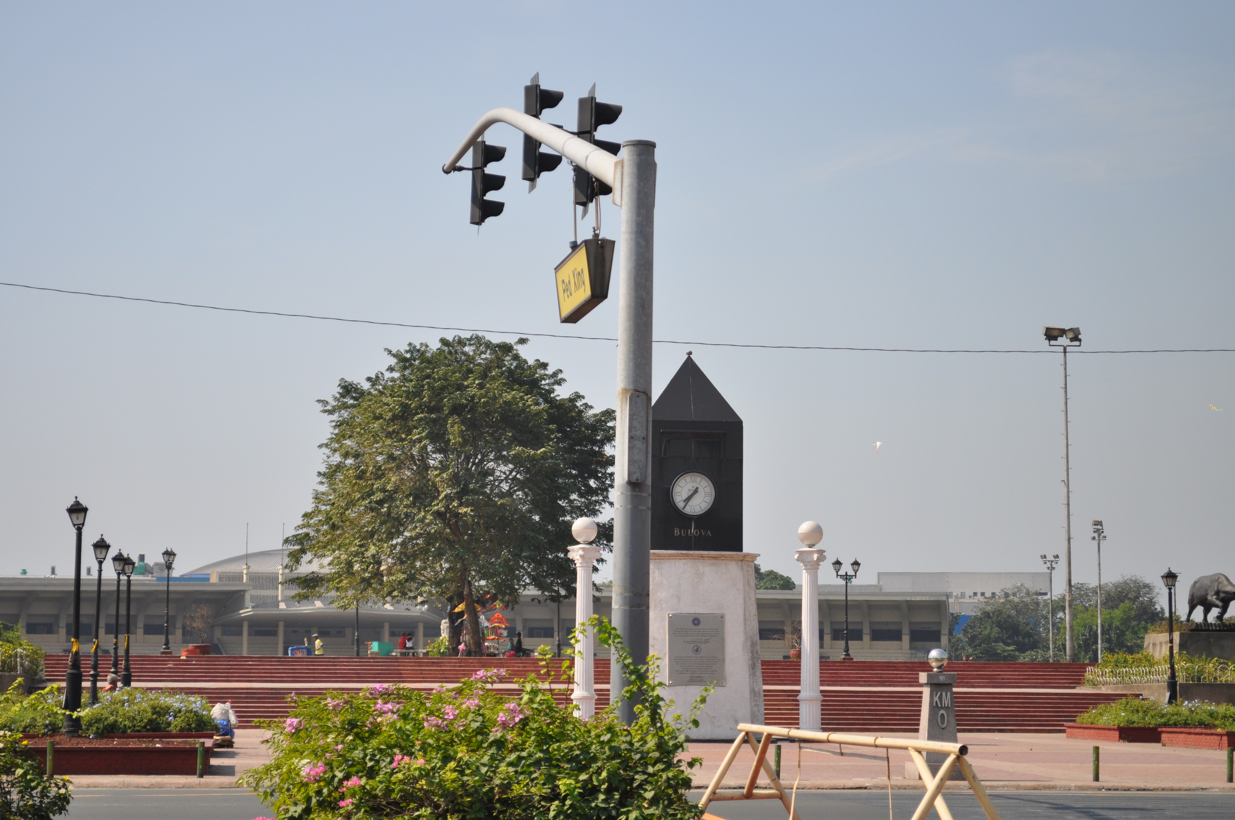 The kilometre zero marker fronting Rizal Park, serving as the point of origin to all other cities in the Philippines.